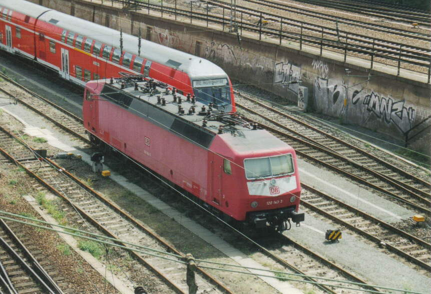 DB Class 120 electric locomotive at Dresden